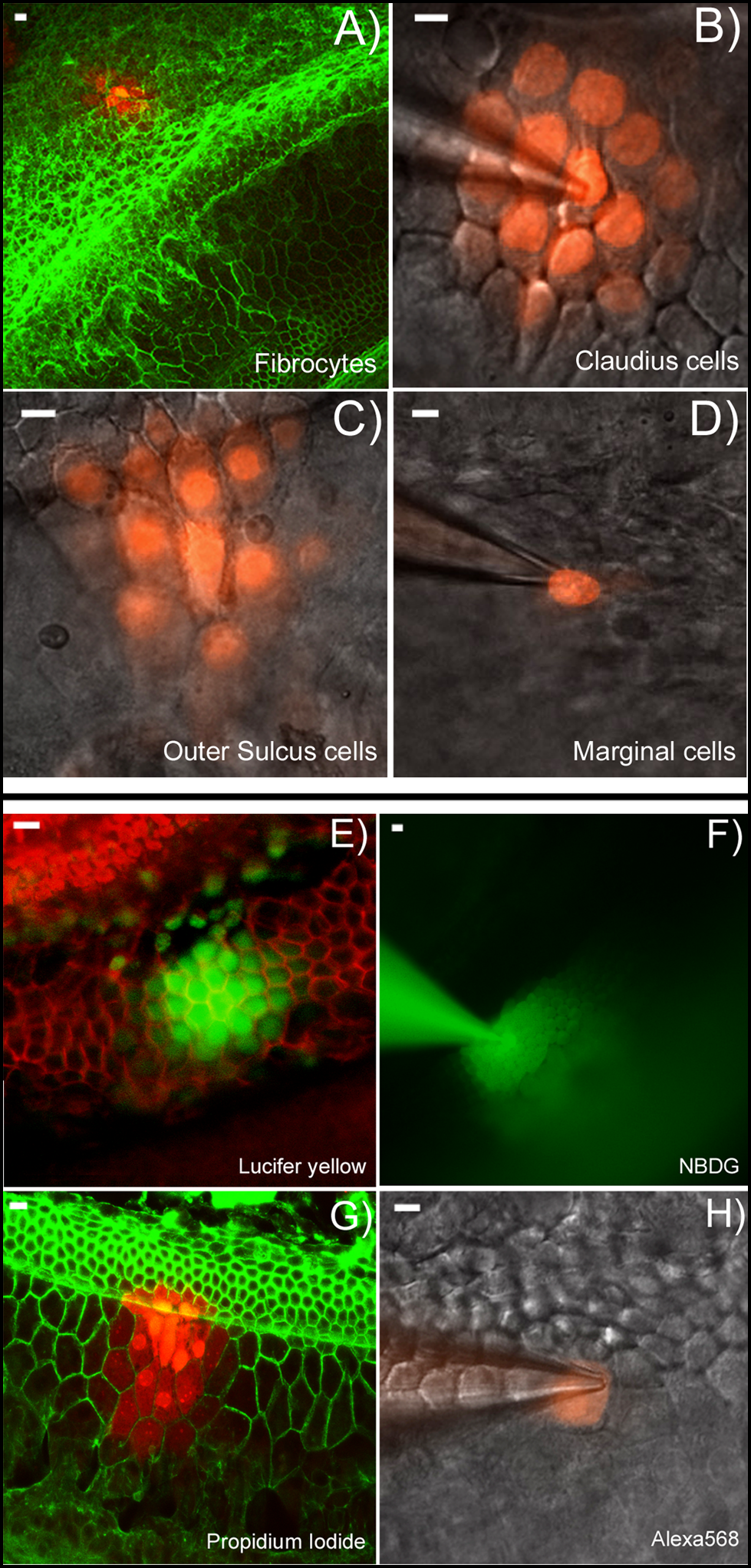 A–D: Dye diffusion patterns after PI was injected into a single cell in various locations in the cochlea. The type of the cells that was injected is given at lower right corner of each panel. E–F: Diffusion patterns of four different fluorescent dyes after injecting into a single Claudius cell. Name of the dye is given in the lower right corner of each panel. Panels B), C), D), F) & H) were photographed with unfixed fresh samples. Panels A), E), G) were results obtained from fixed samples after the experiments were done. They were labeled with fluorescent phalloidin (red in E, green in A&G) to outline the cell border. Scale bar on the top left of each panel represents approximately 100 µm.